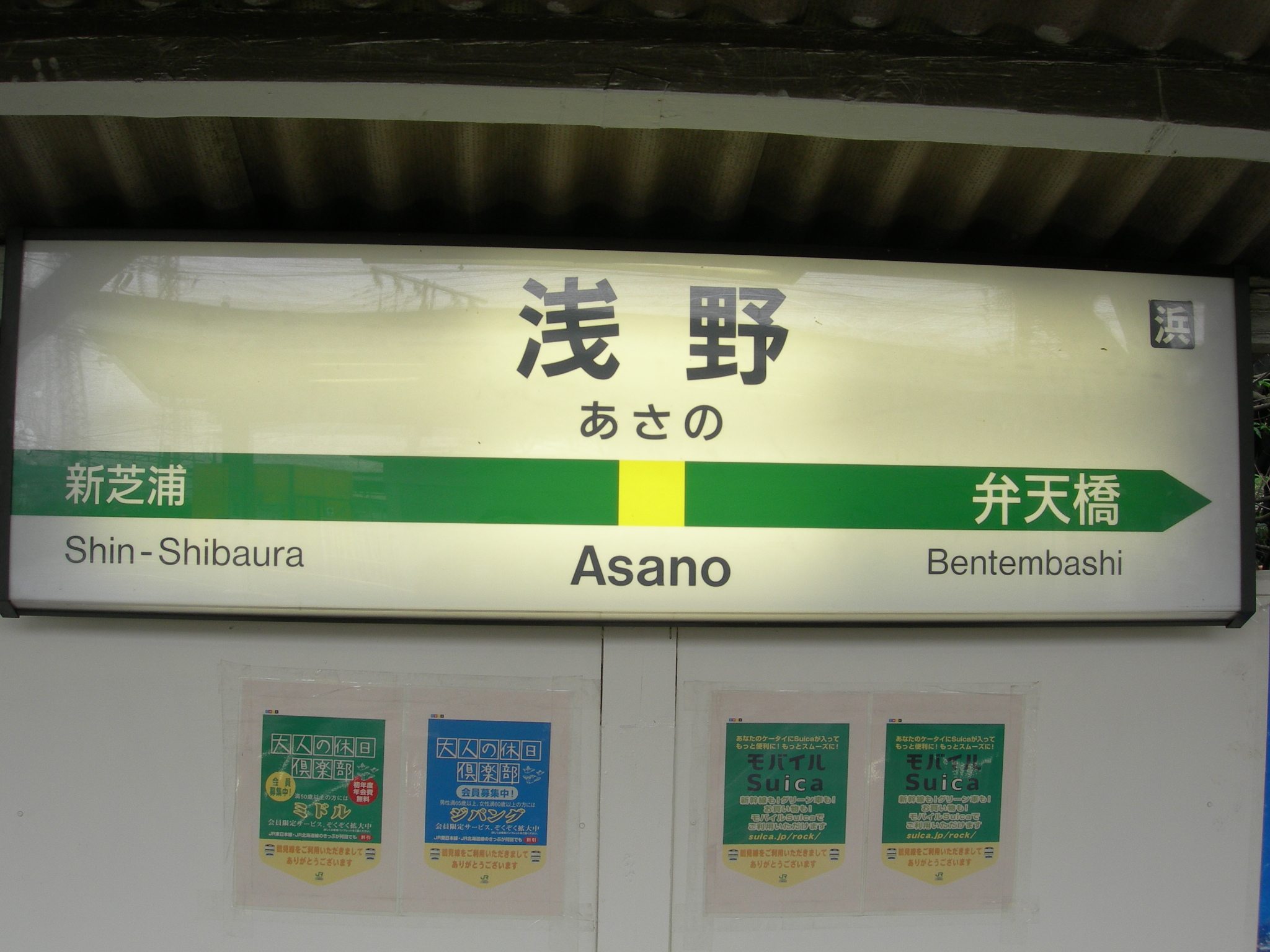 Station Name of Asano Station, Tsurumi Line. Taken in 2008.